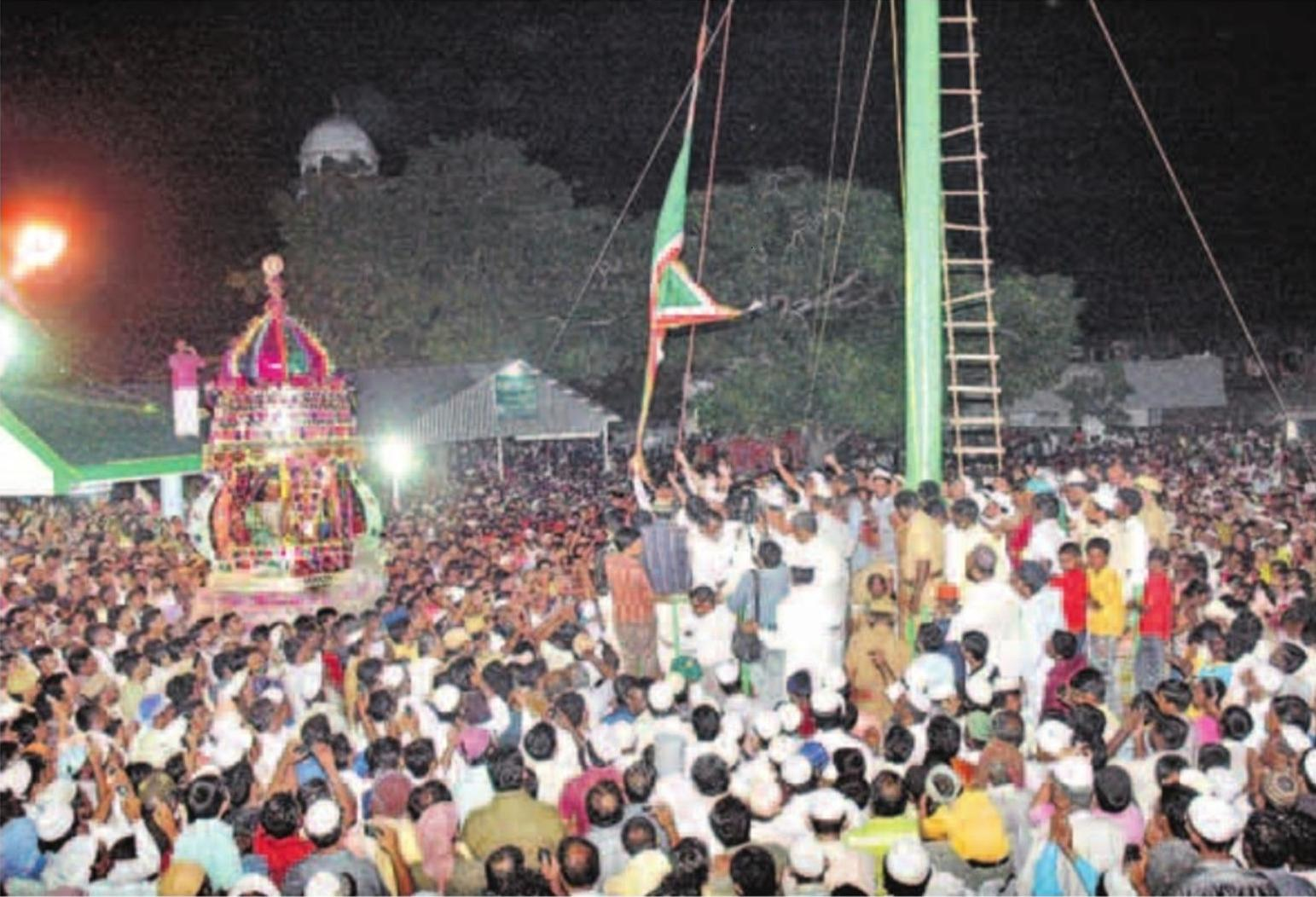 Holy flog hoisting festival